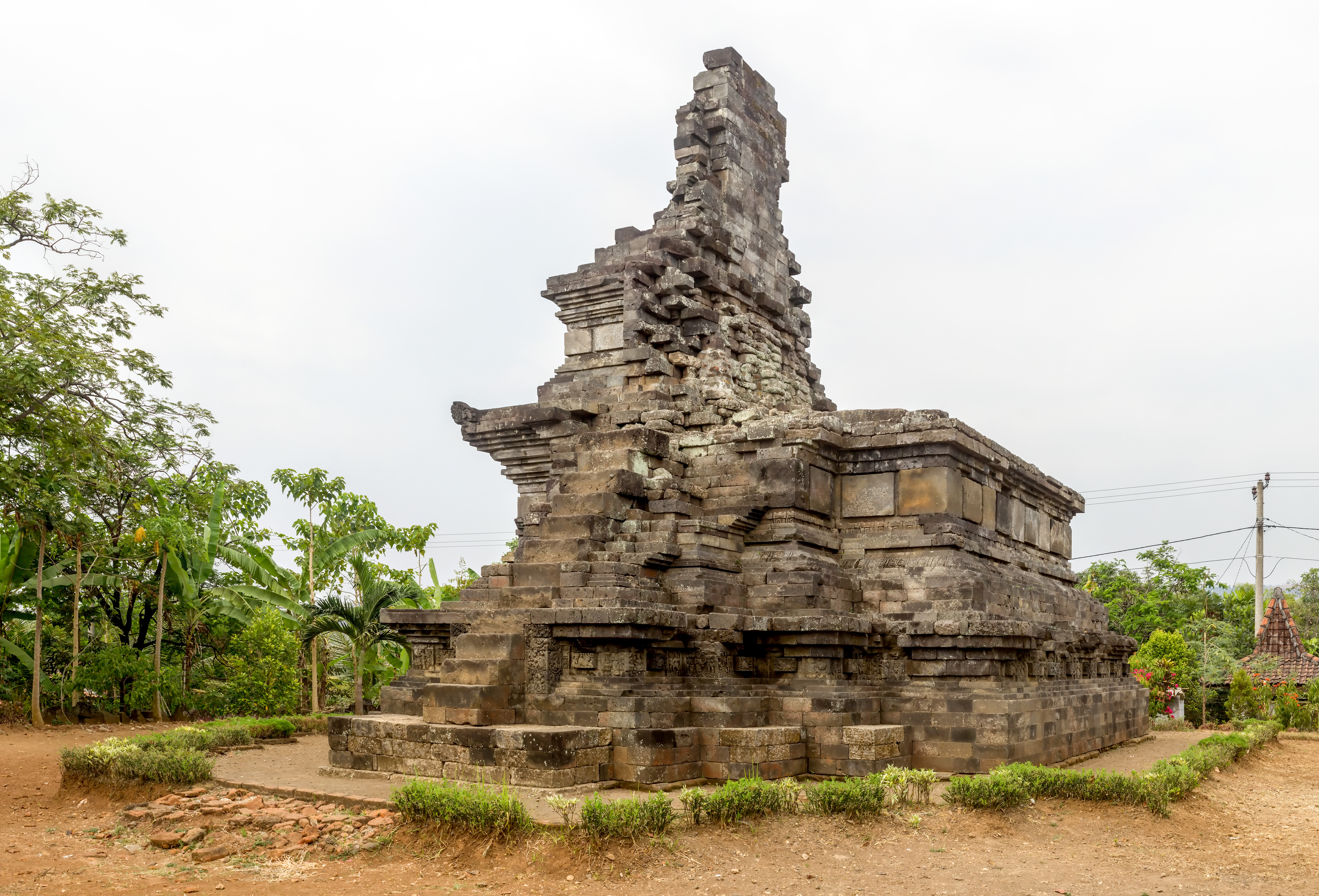 Rimbi Temple, Bareng, Jombang, 2017-09-19